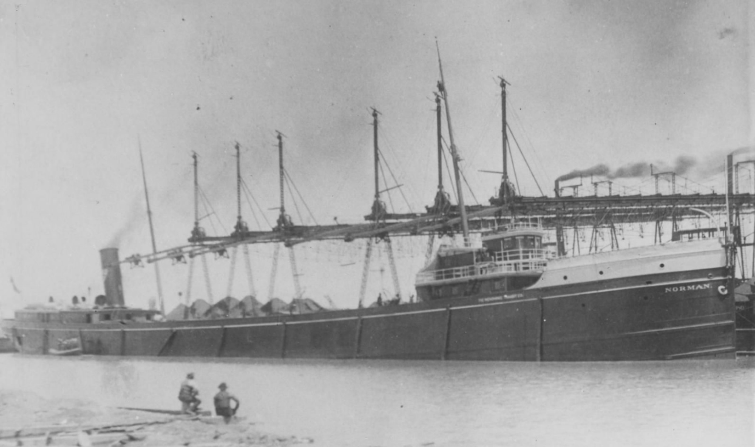 The steamer Norman prior to her sinking